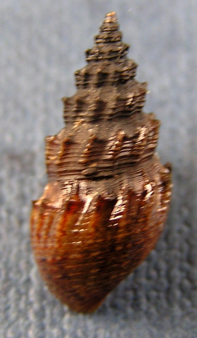 Thiara winteri von Dem Busch, 1842, a sea snail in the family Thiaridae; Philippines